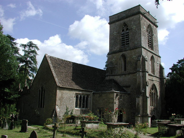 Church of St Peter, Langley Burrell near Chippenham, Wilts, UK.